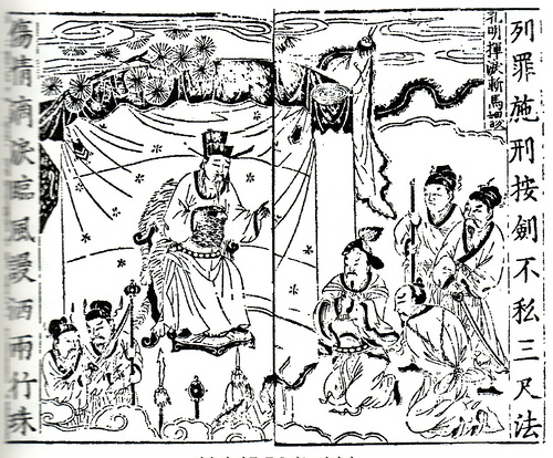 A Qing Dynasty illustration of Ma Su's fate.